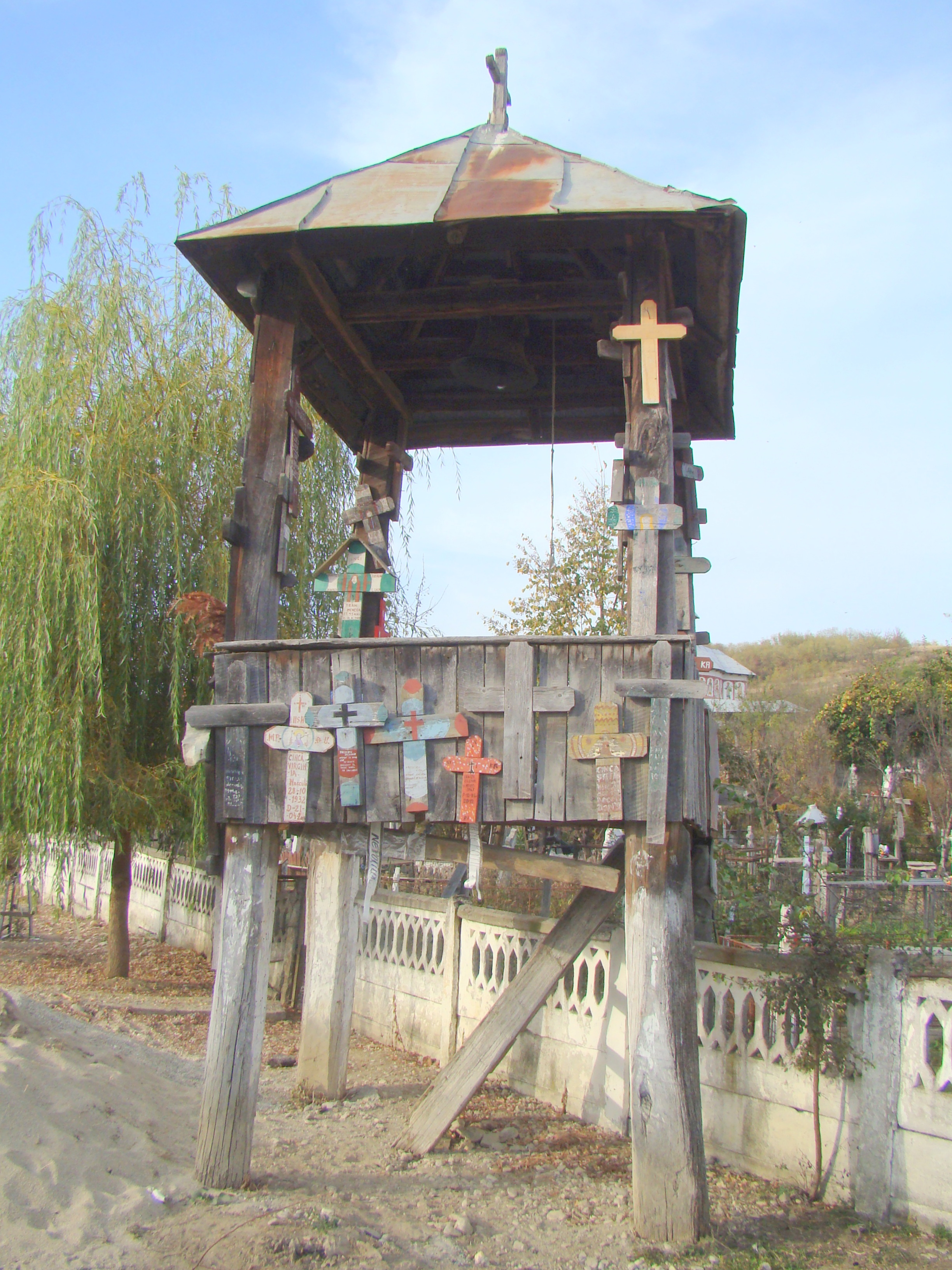 Wooden church in Piscuri, Gorj county, Romania